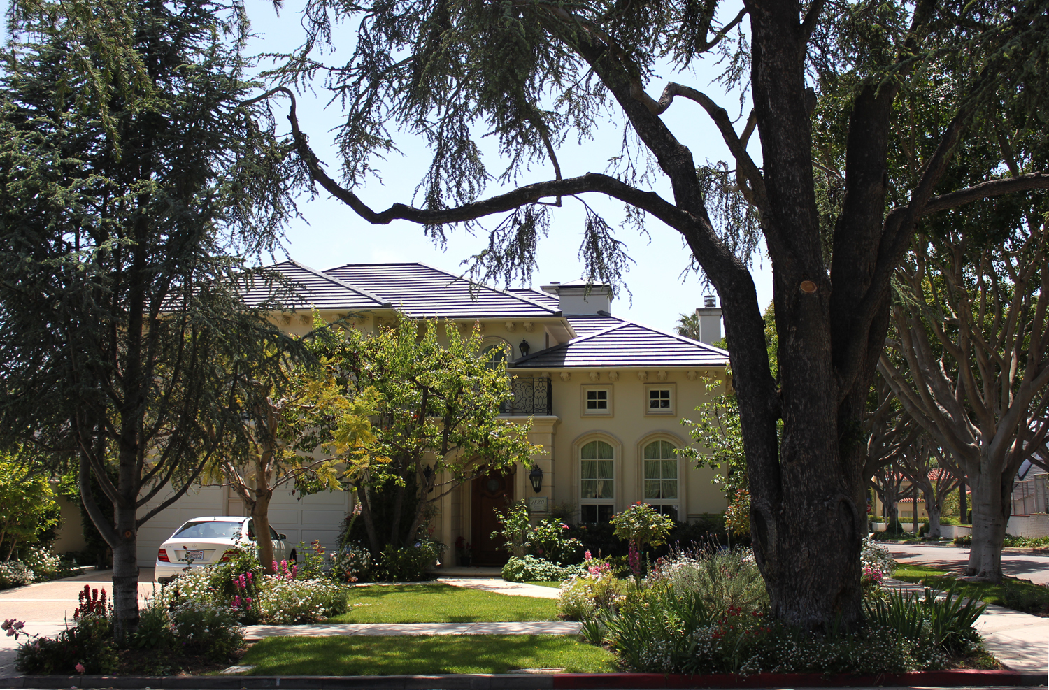 Typical home in the North of Montana neighborhood in Santa Monica, California - Zip code 90402, among the most expensive in California and in the U.S.